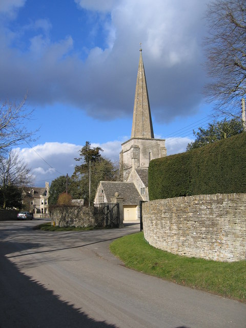 13th-century tower and 1824 spire of All Saints' parish church, Kemble, Gloucestershire